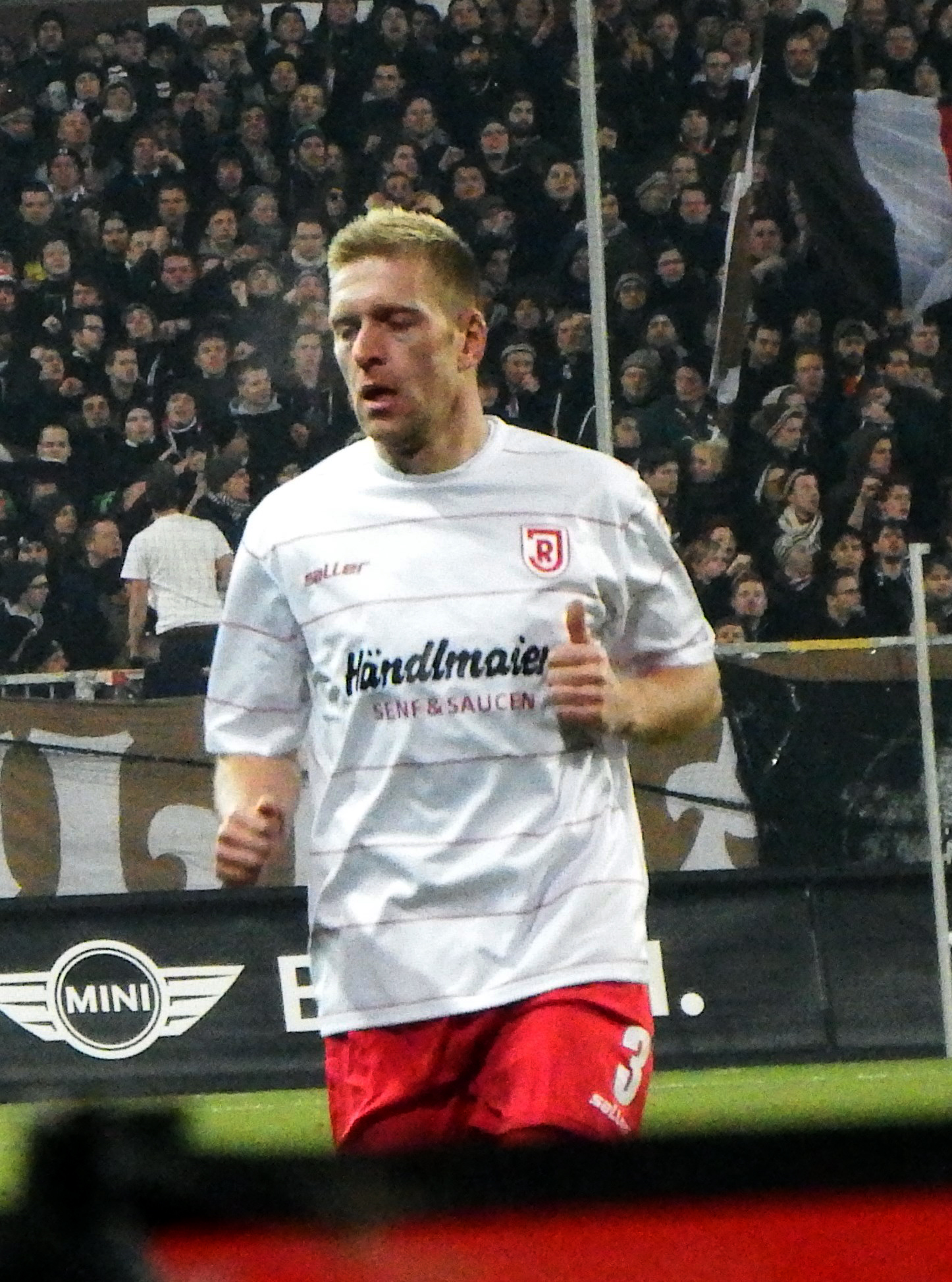 Christian Rahn as Player from Jahn Regensburg